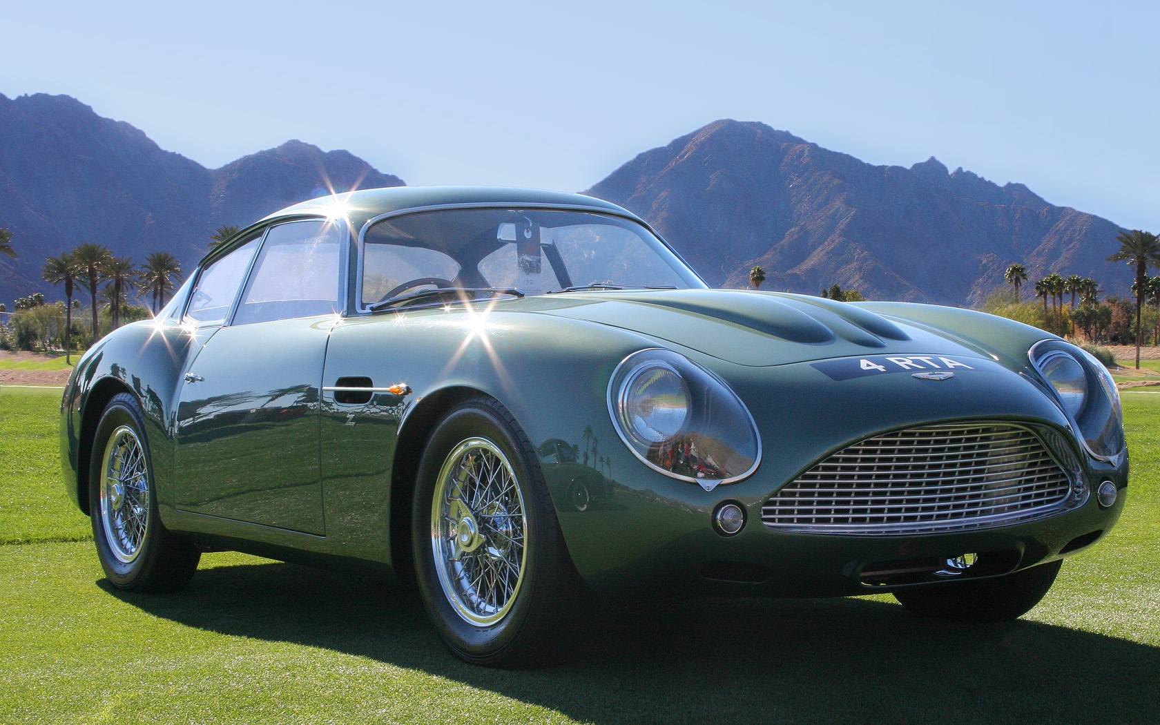 1961 Aston Martin DB4 GT Zagato - fvr3